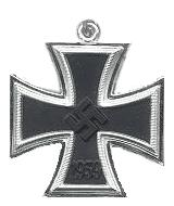 Grand Cross of the Iron Cross